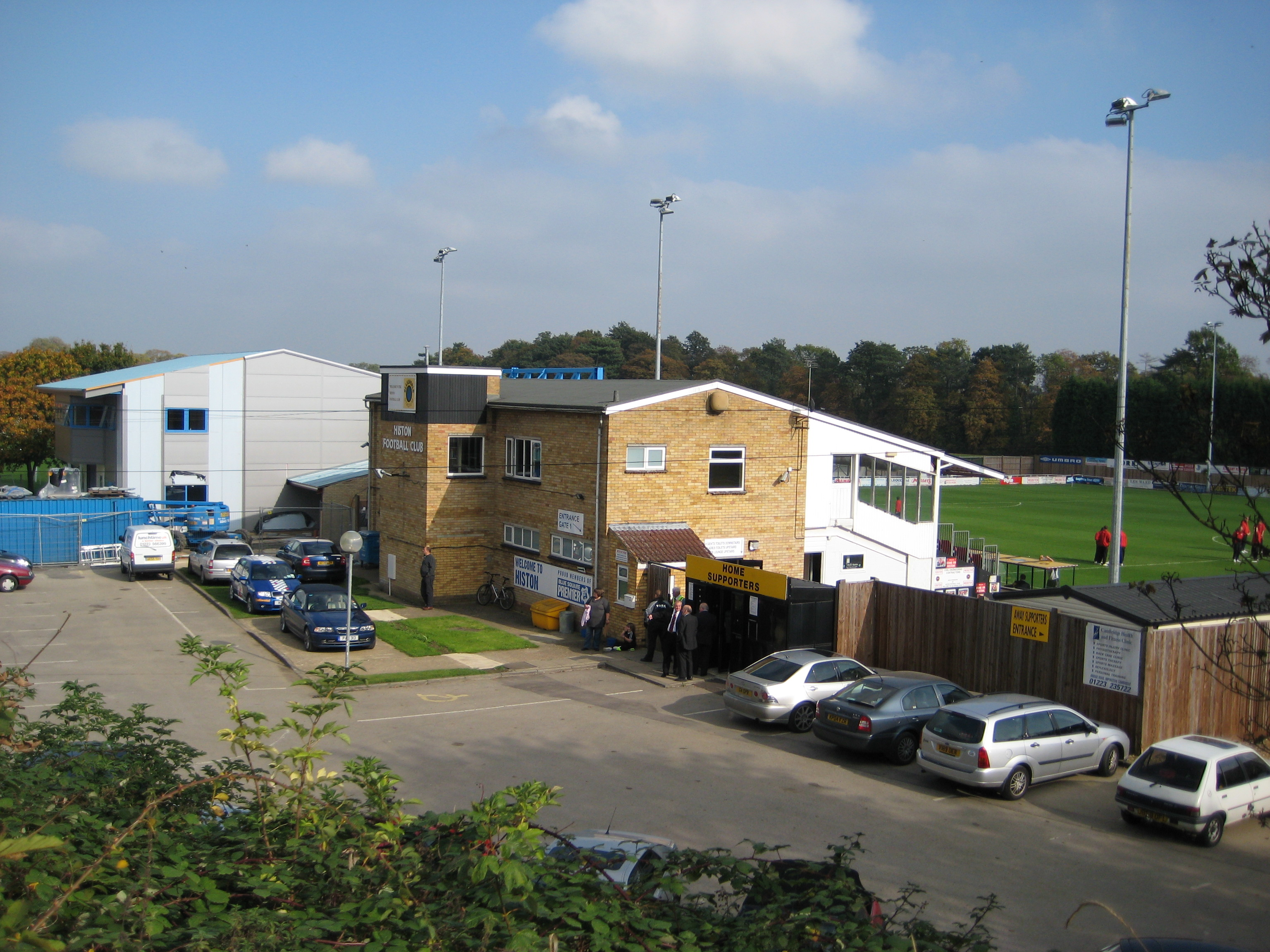 Taken before the game between Histon F.C. and Kidderminster Harriers F.C. on 14th October 2007.